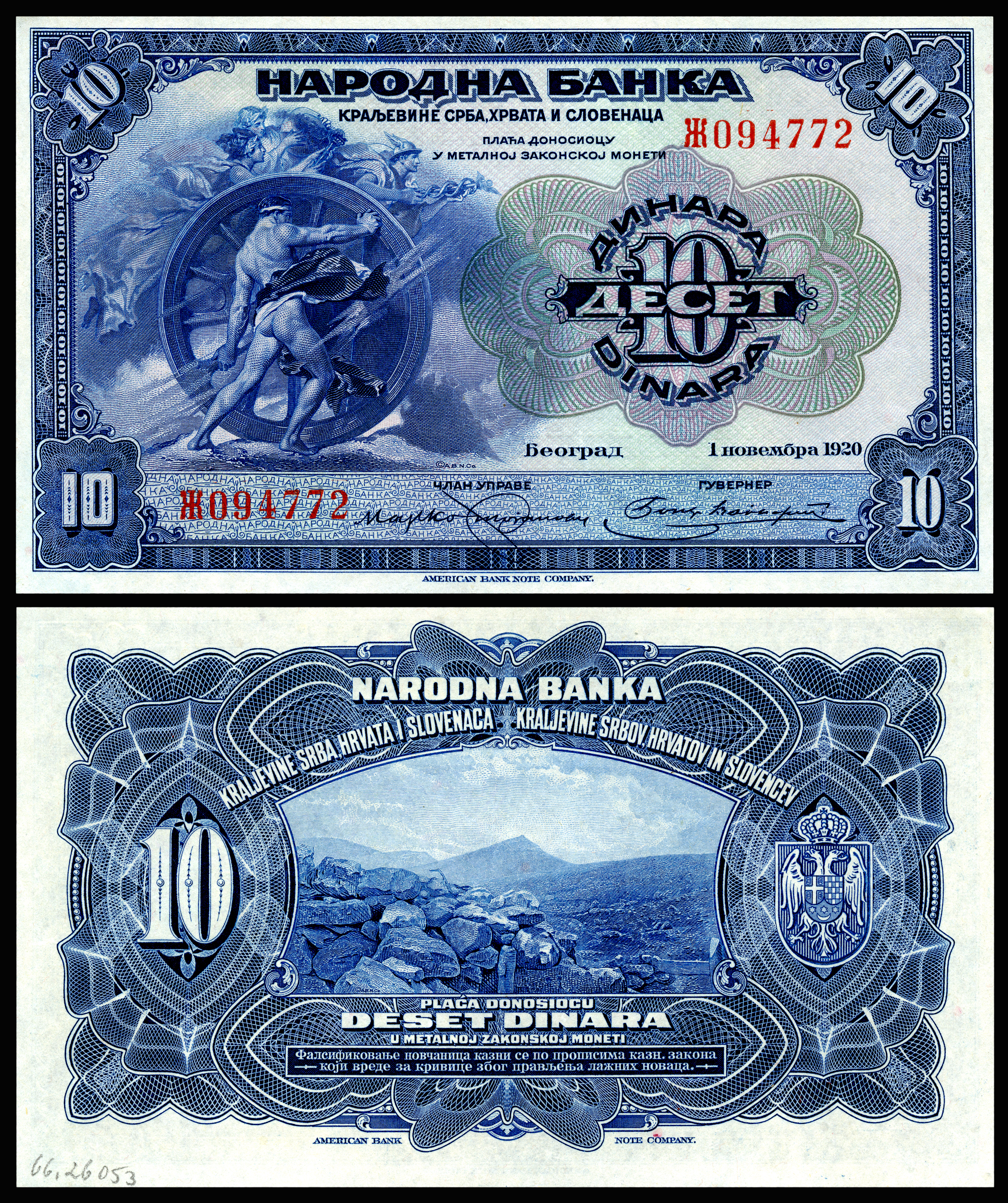 Kingdom of Serbs, Croats and Slovenes (National Bank), 10 dinara (1920). The obverse allegory of "Progress" was engraved by Robert Savage.